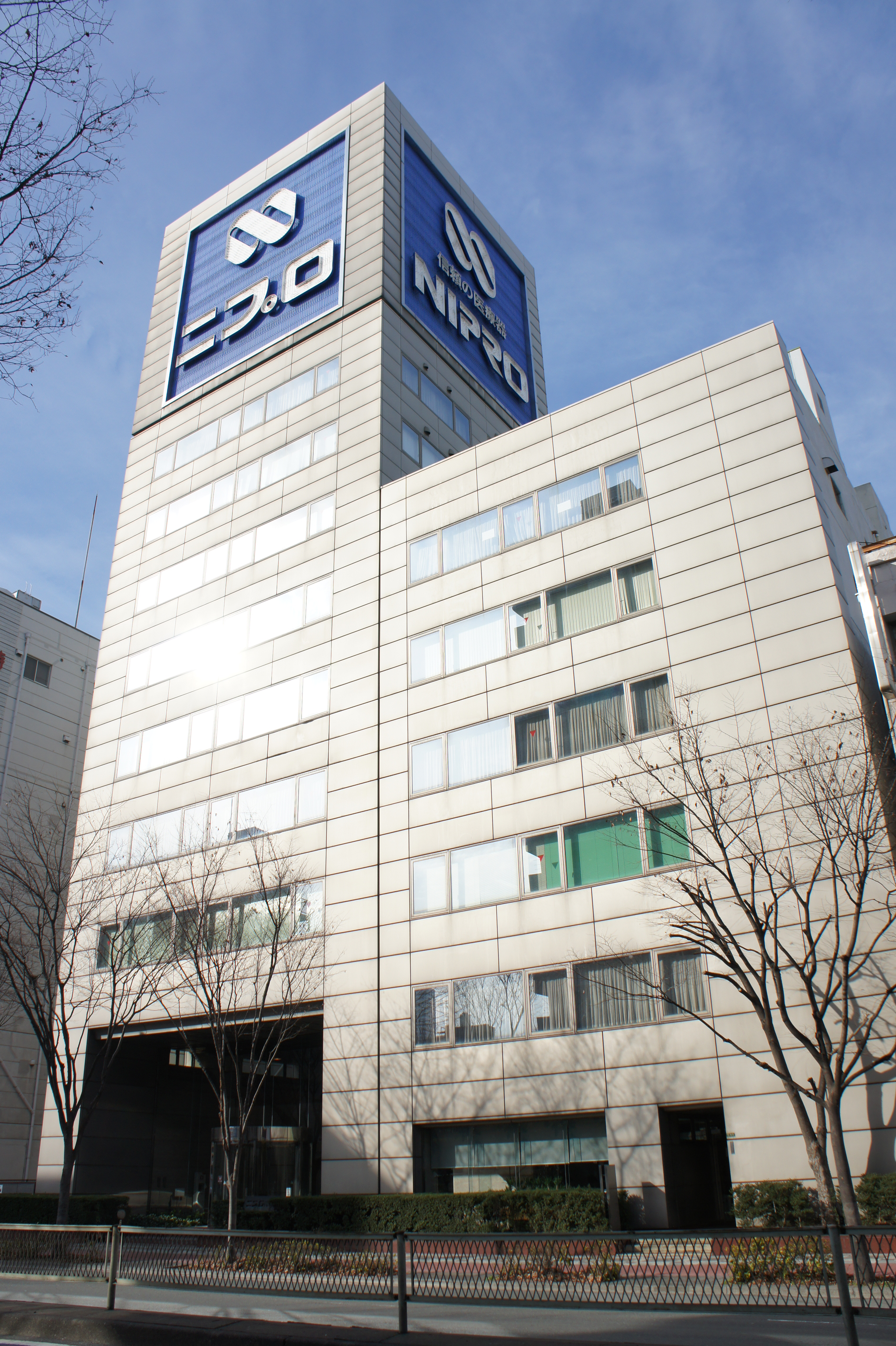 NIPRO CORPORATION HEAD OFFICE, 3-9-3 Honjo-nishi Kita-ku Osaka JAPAN